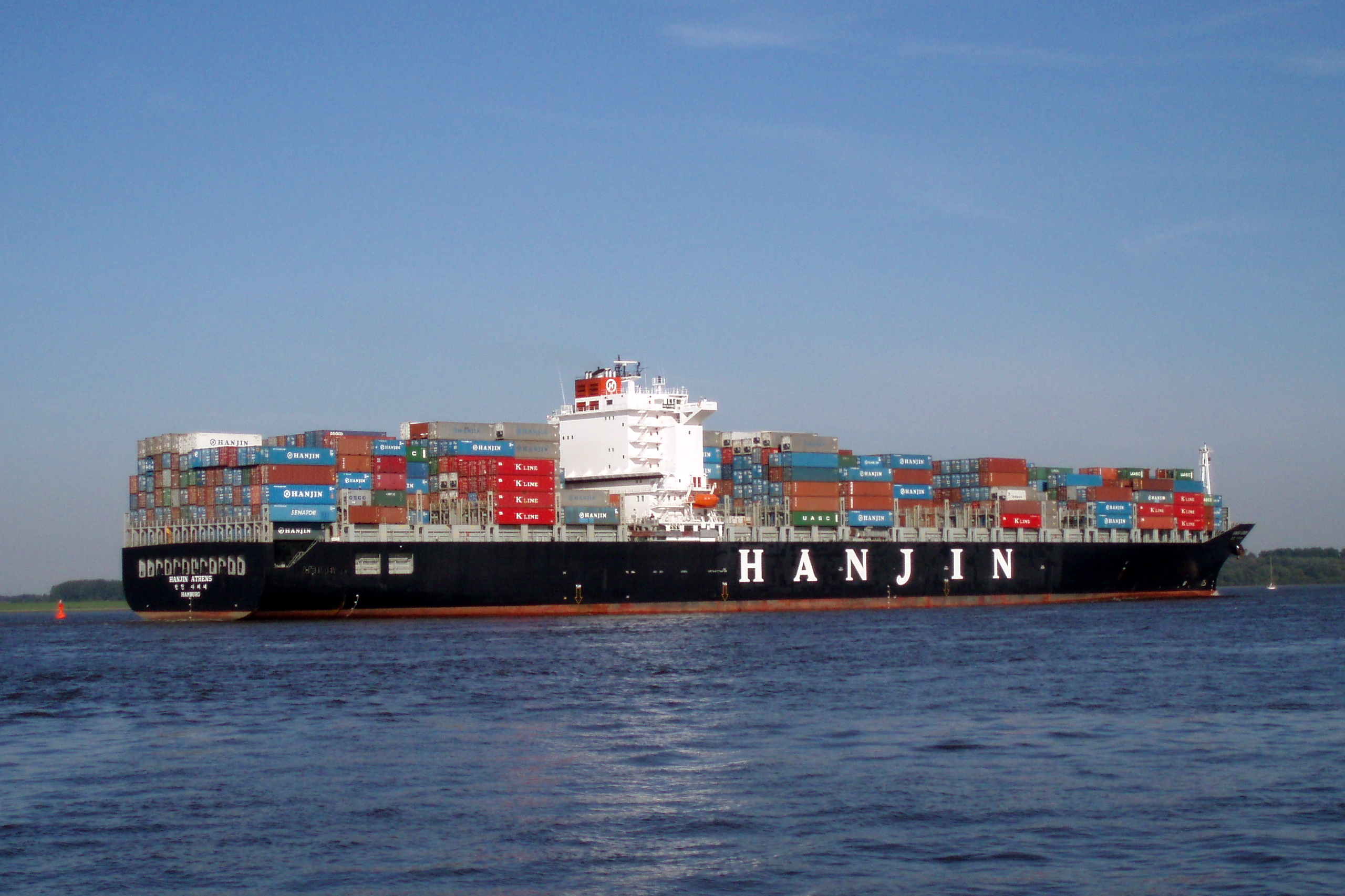 Hanjin Athens passing Stadersand, Germany. IMO Number: 9200706 MMSI Number: 211377290 Callsign: DANV Length: 279 m Beam: 40 m